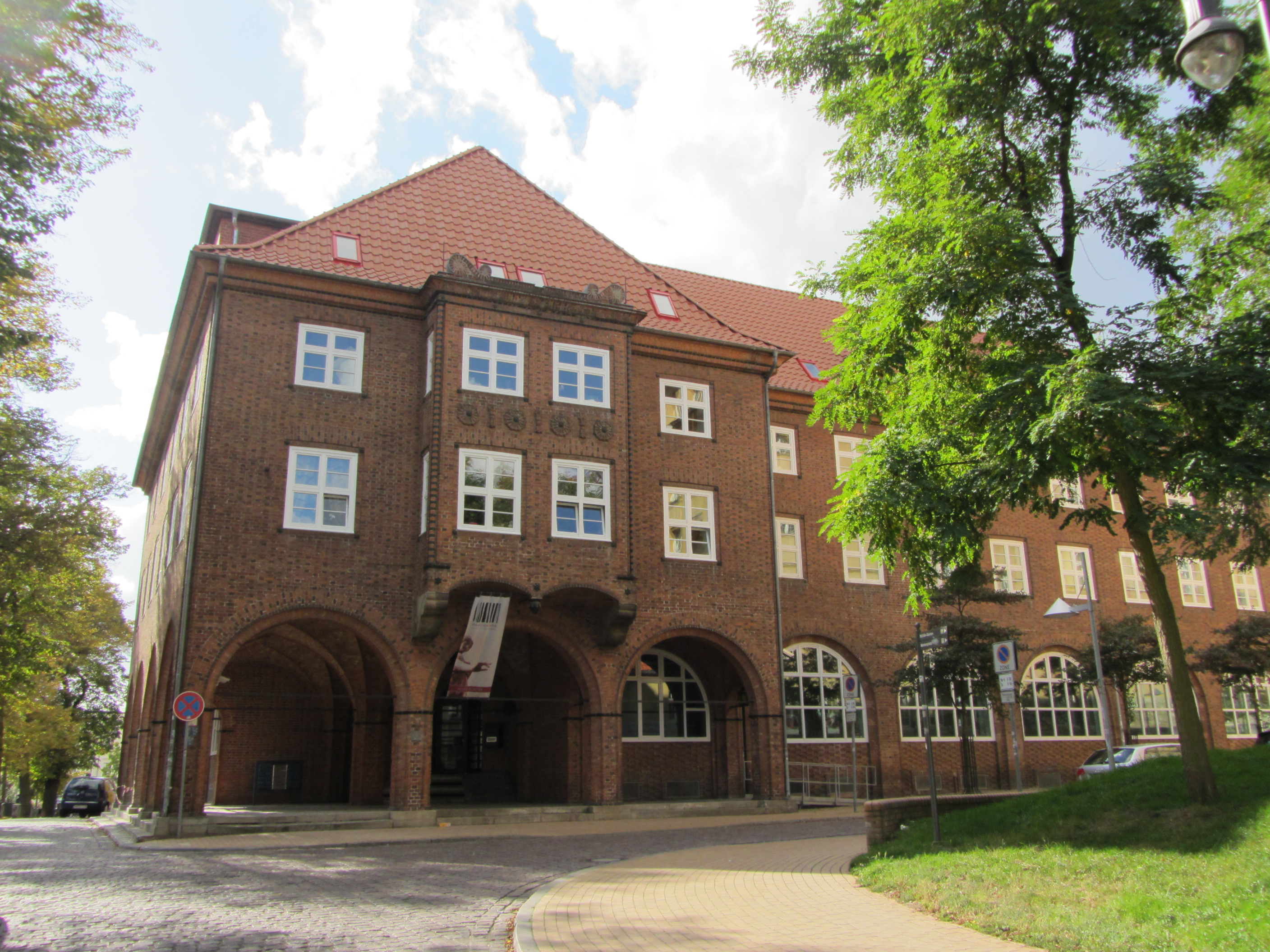 Residential complex Goethestraße 70/72 in Schwerin, Mecklenburg-Vorpommern. Former branch bank of Reichsbank, constructed 1922-1923.